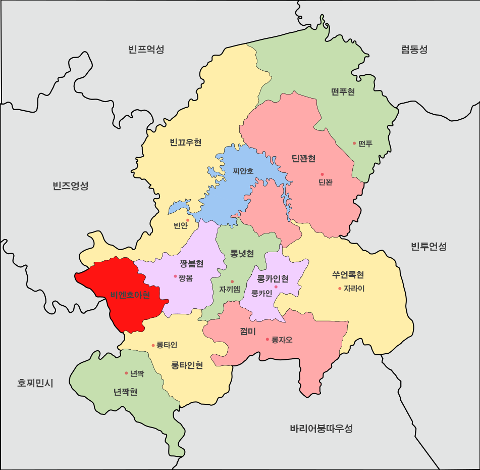 Administrative Divisions of Dong Nai Province in korean